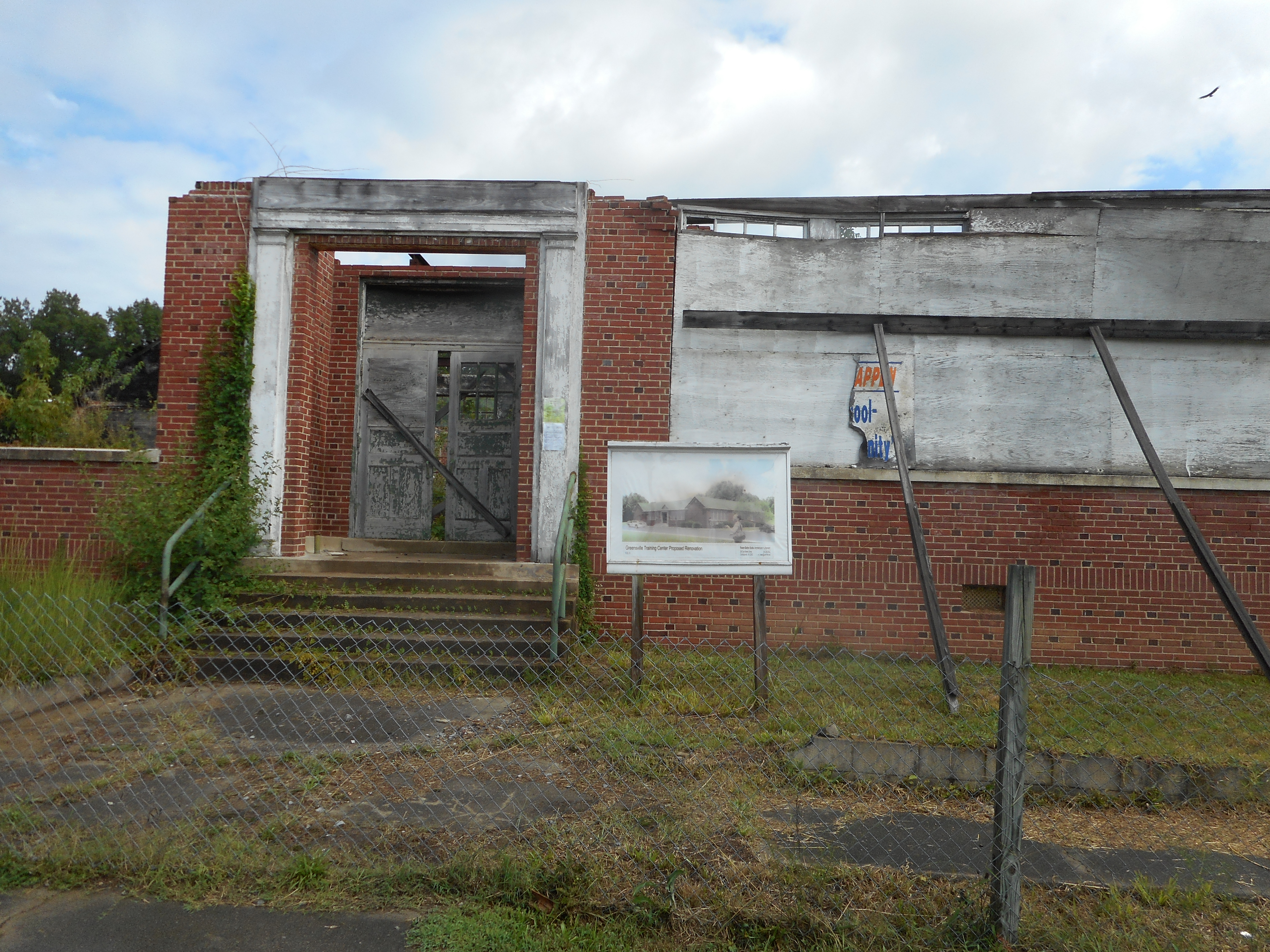 The ruins of the NRHP-listed former Greensville Training Center in Emporia, Virginia, which the city intends to restore. Further info, and a possible rename to come later.